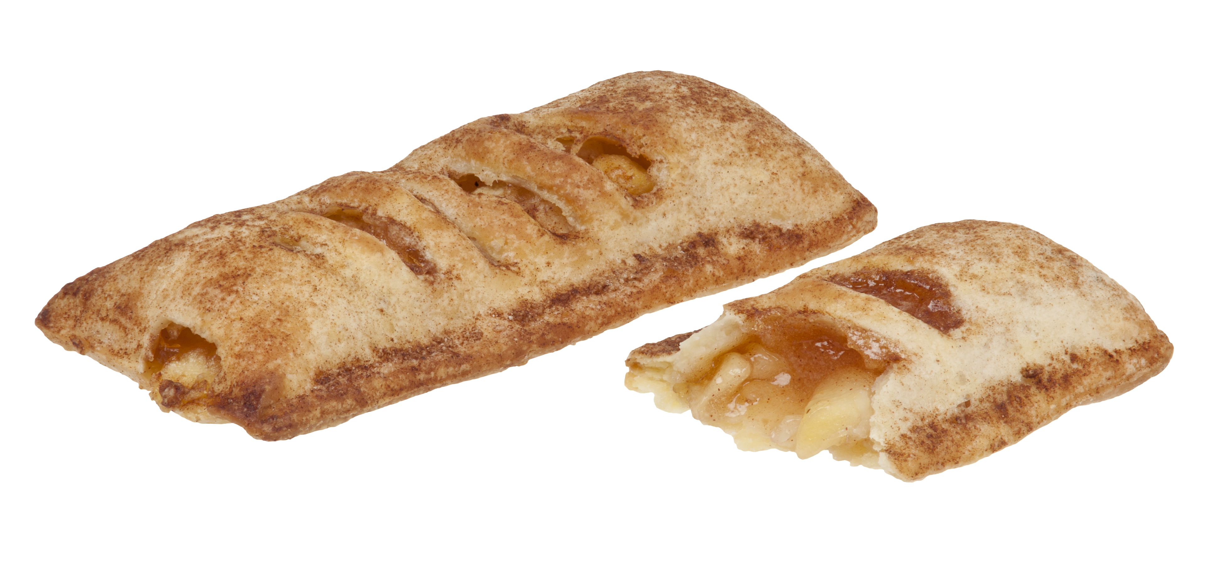 A whole and split apple pie, as bought from an American McDonald's fast food restaurant.